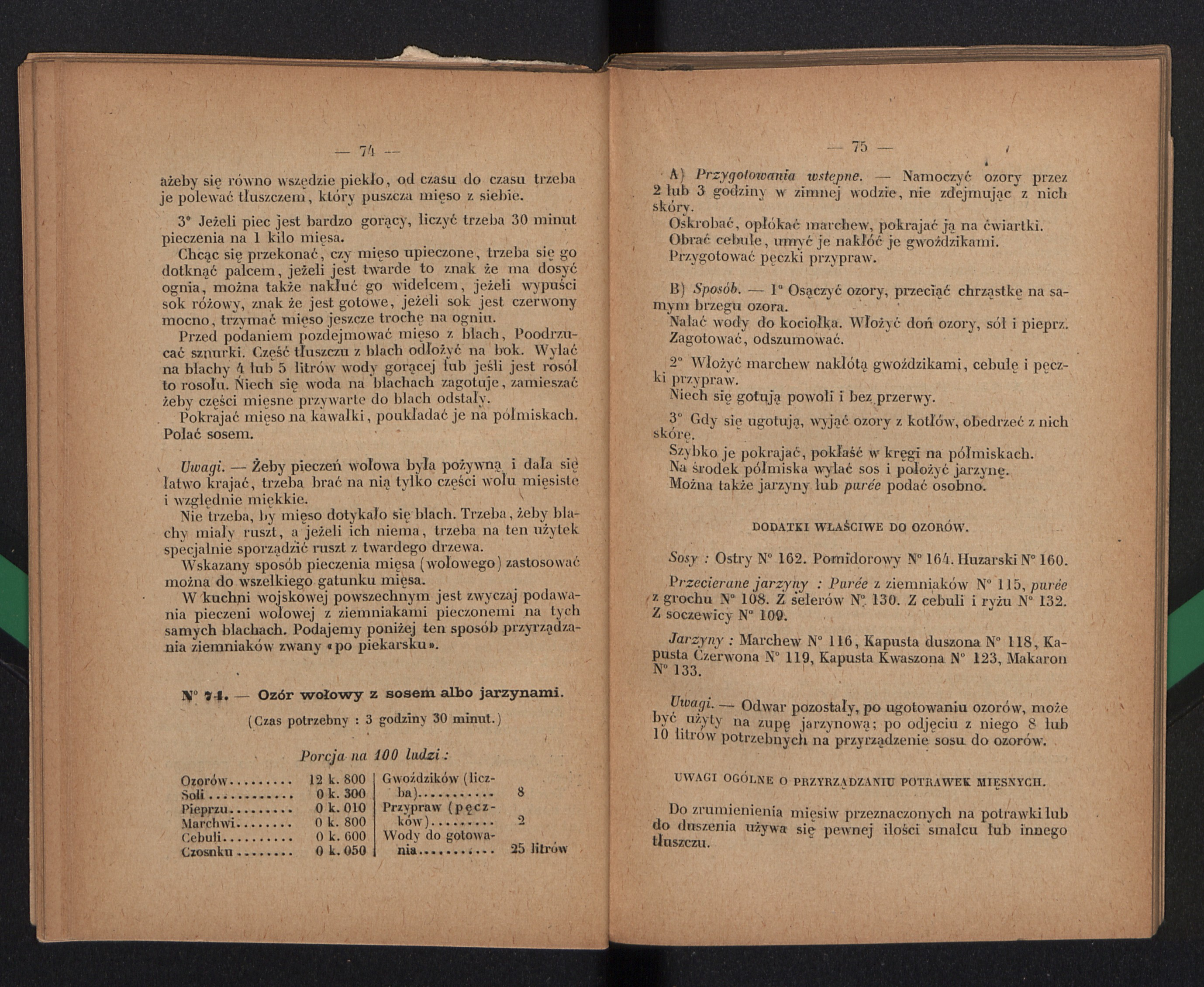 Recipe for beef tongue dish in a Polish Army cookbook, 1918